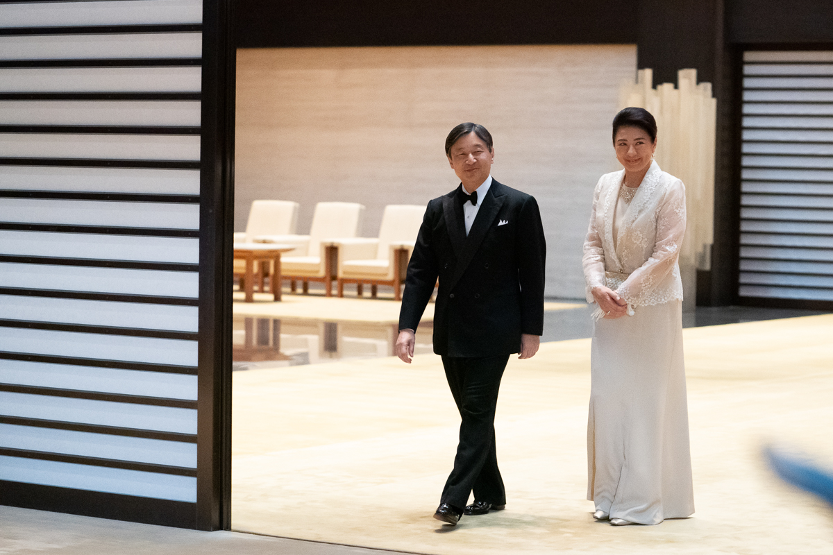 Emperor Naruhito and Empress Masako of Japan await the arrival of President Donald J. Trump and First Lady Melania Trump to the State Banquet Monday, May 27, 2019, at the Imperial Palace in Tokyo. (Official White House Photo by Andea Hanks)